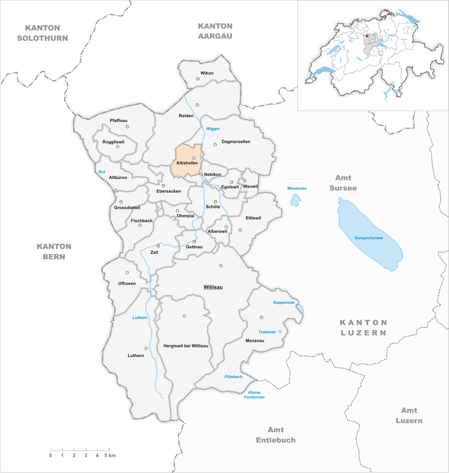 Municipality Altishofen